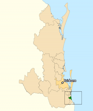 This image incorporates data that is: © Commonwealth of Australia (Australian Electoral Commission) 2009 Division of Moncrieff 2010